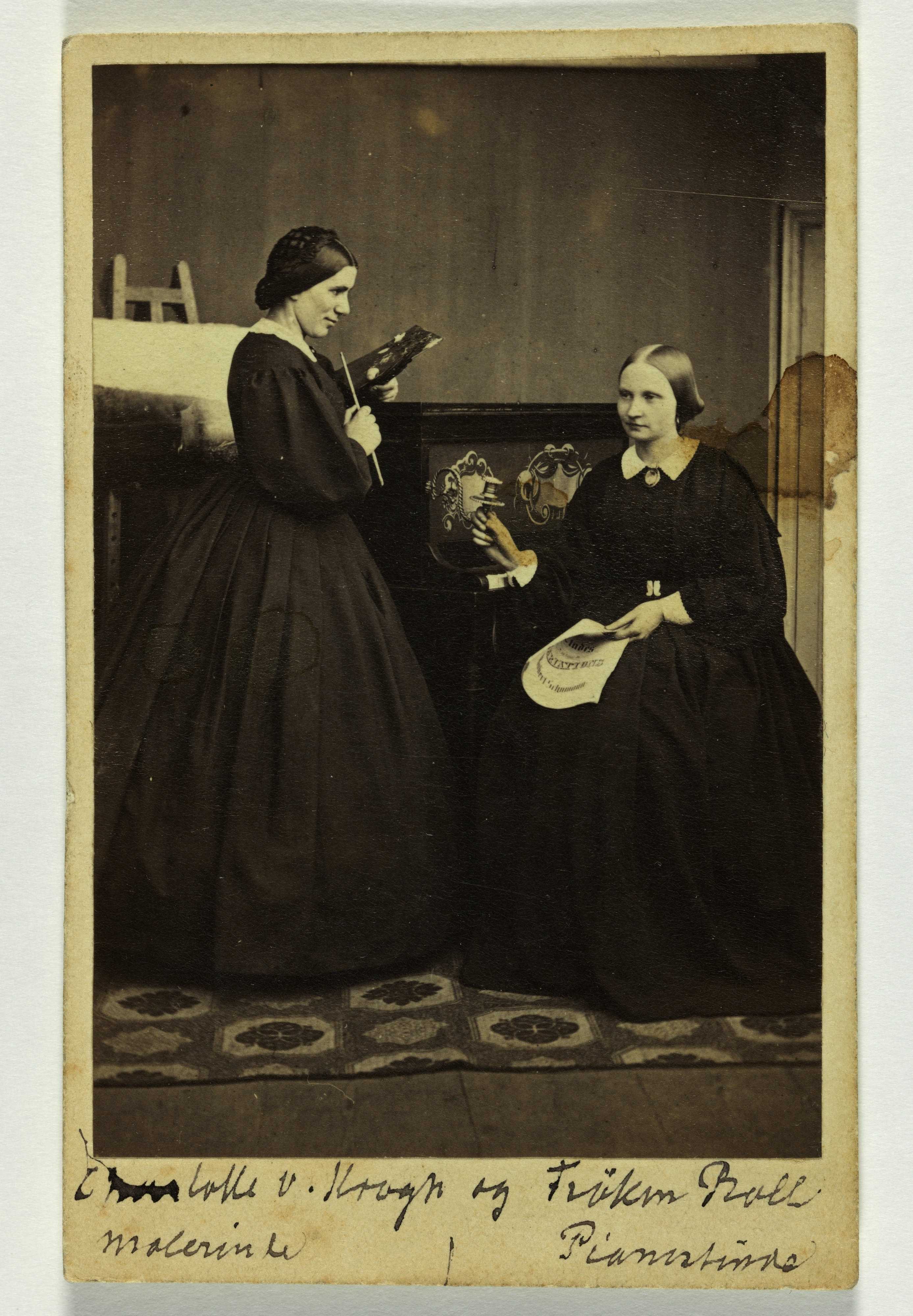 Depicted person: Charlotte von Krogh – German painter